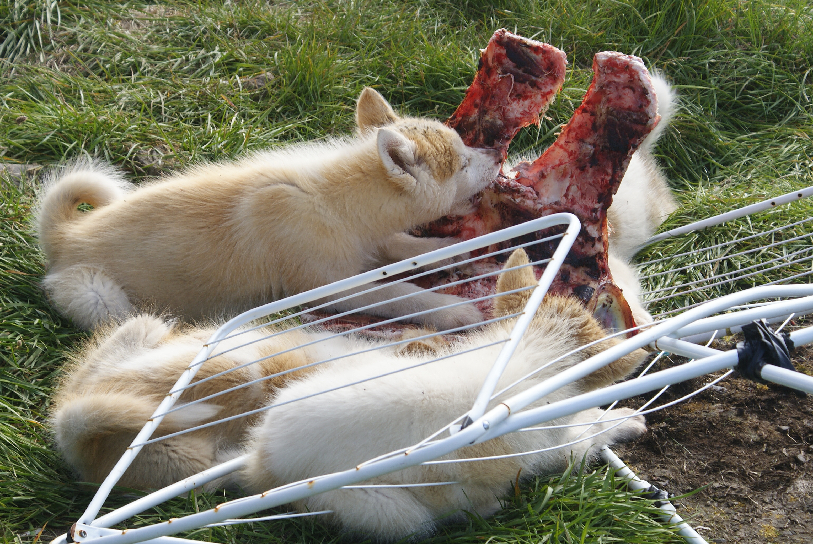 Greenland dog puppies eating muskox scraps in Upernavik Kujalleq, Upernavik Archipelago, Greenland.